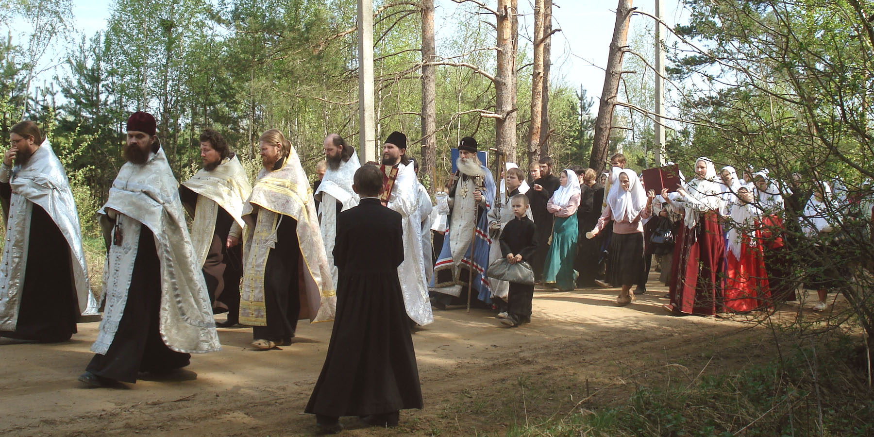 Crucession. Russian Orthodox Old-Rite Church. Davydovo-Gora-Yelizarovo-Lyakhovo (Guslitci) Orehovo-Zuevo district Moscow reg.